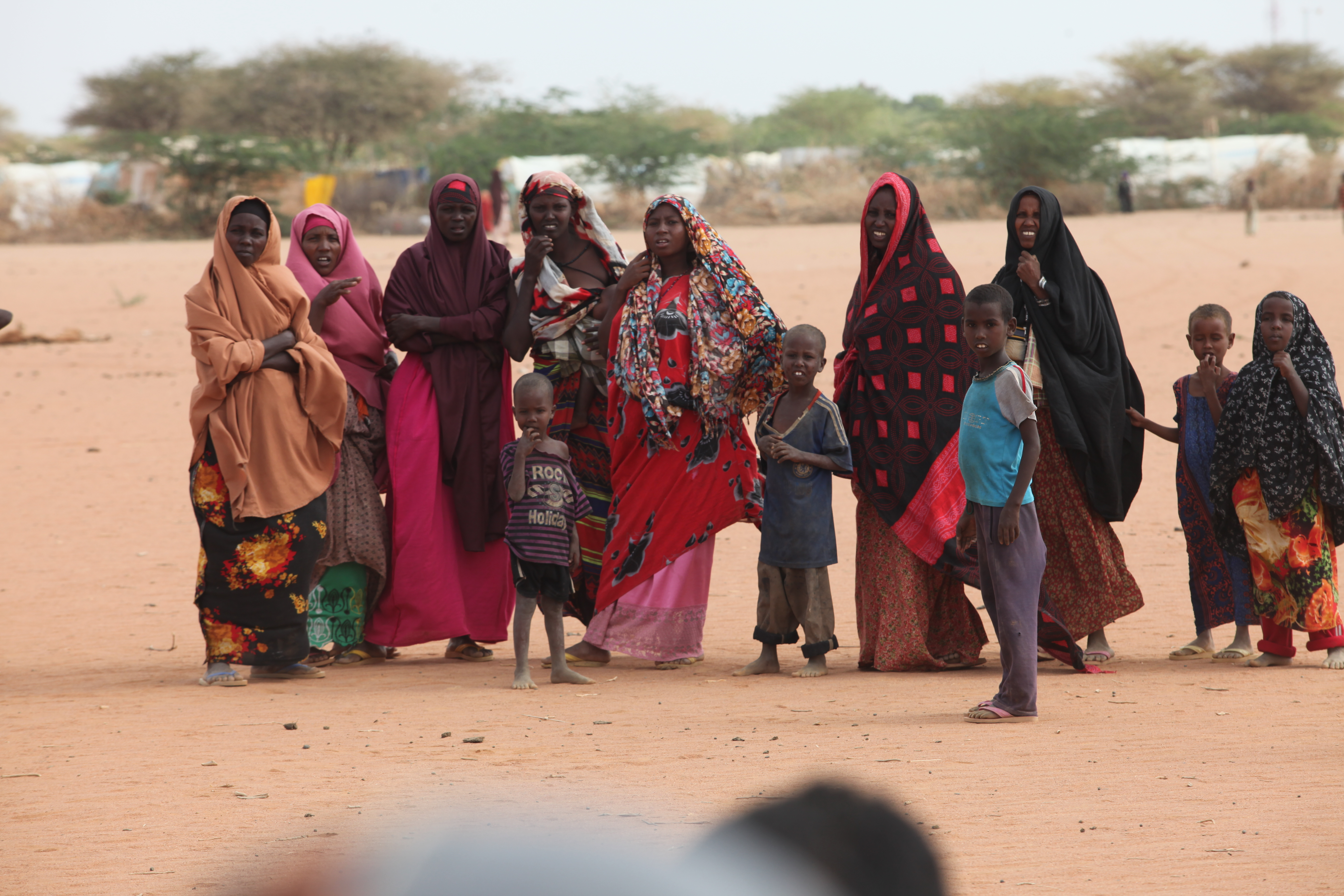 Despite the dangers thousands of refugees every week are making the journey, walking for weeks across the desert and braving attacks by armed robbers and wild animals. Many of the new arrivals are women and children.